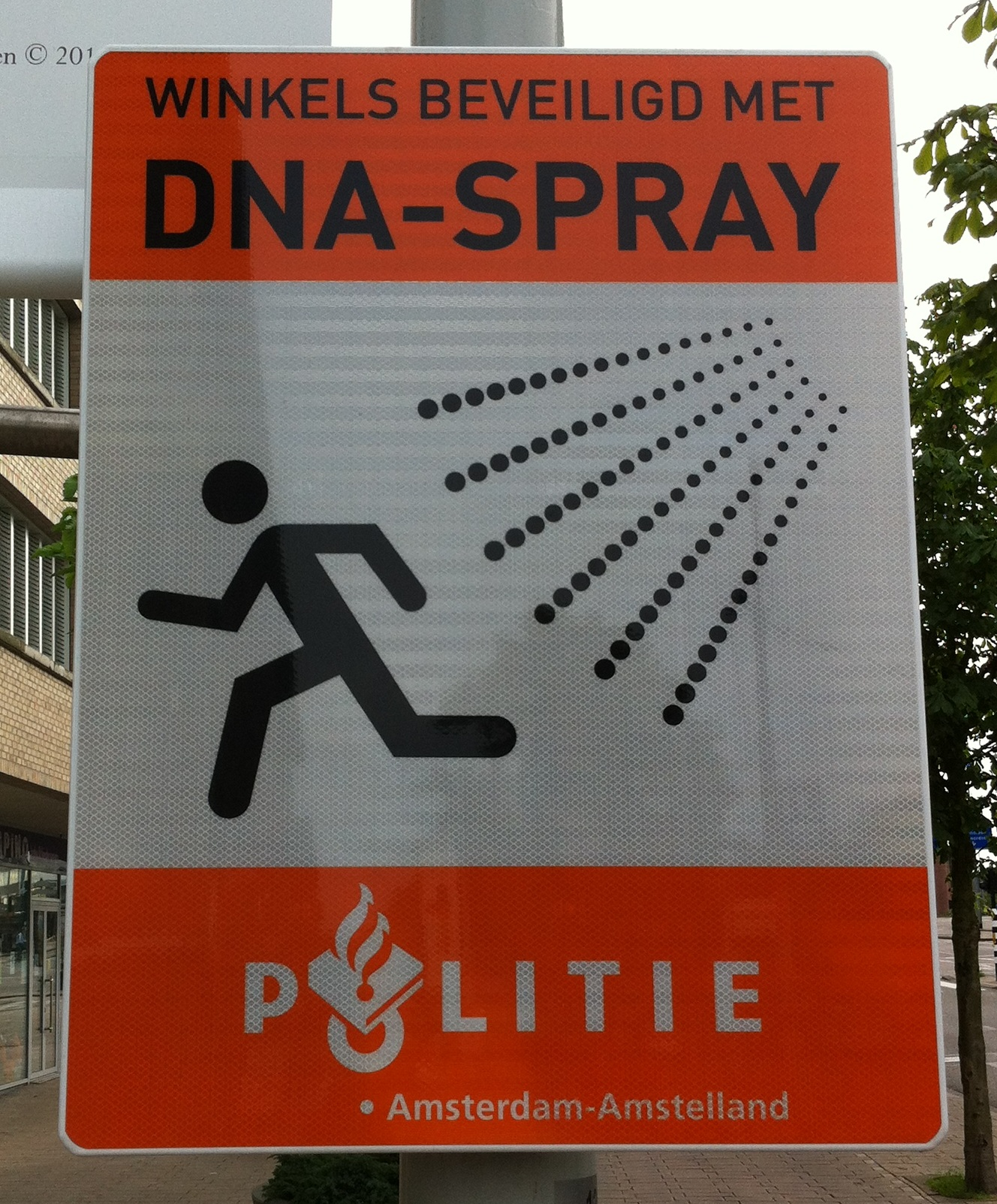 A warning sign (in dutch) that says "Shops protected using DNA spray"